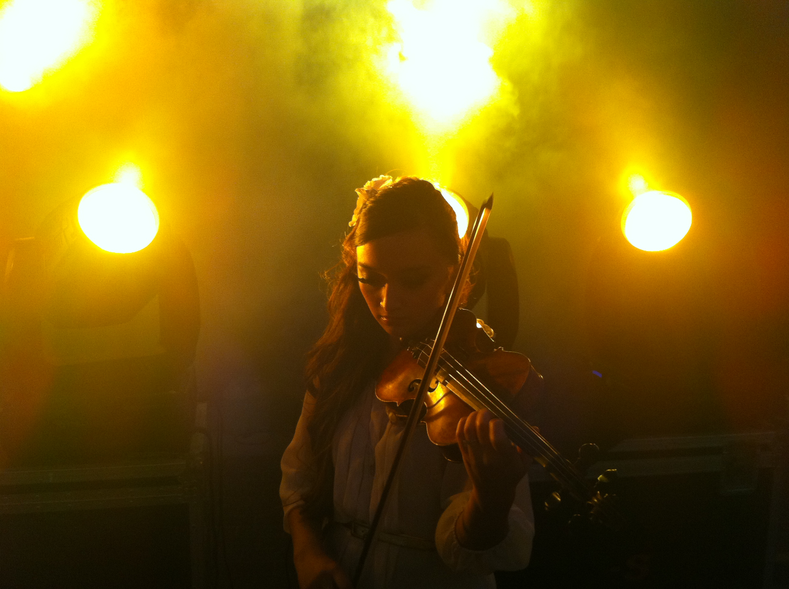 Violinist and Songwriter Backstage at Dubai 2012 New Year Concert